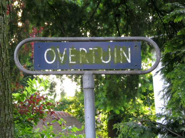 Street sign of the street name 'Overtuin' ("over-garden", garden on the other side of the road). Terborg, Gelderland, The Netherlands.